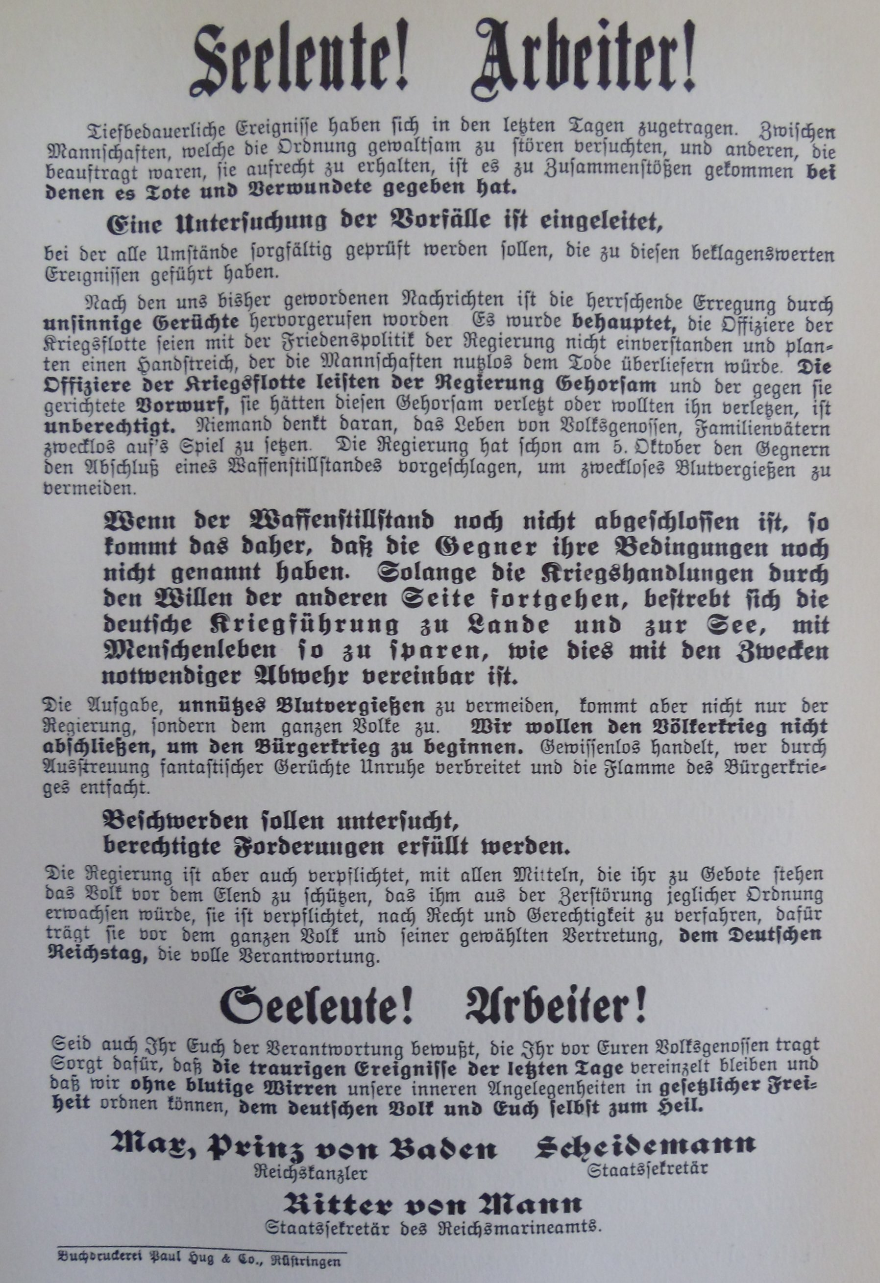 Leaflet issued by the government headed by Max von Baden in early November 1918, after the Naval order of 24 October 1918, stating wrongly that the officers of the Imperial German Navy obey orders from the government.